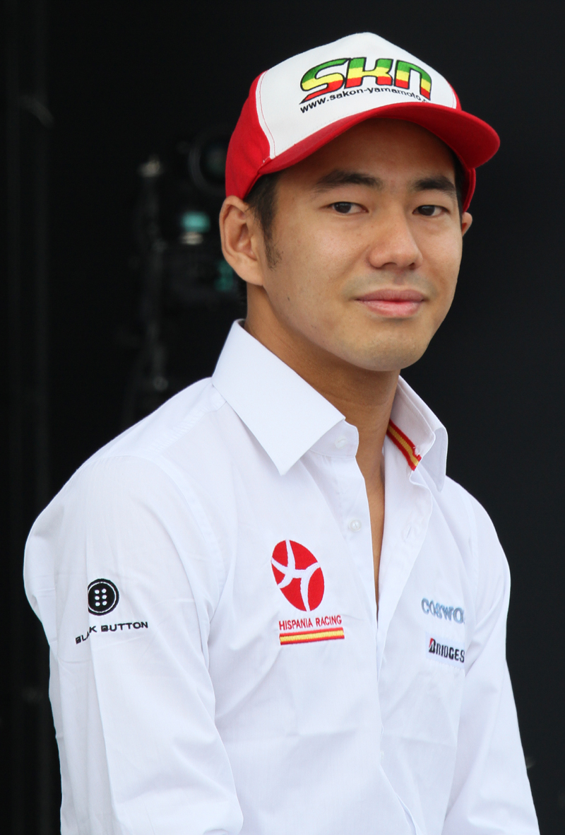 Motorsport Japan 2010: Sakon Yamamoto (Hispania Racing / Formula One)